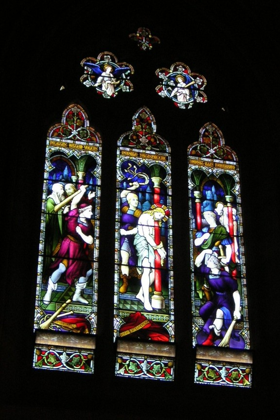 Sydney, St Marys Roman Catholic Cathedral, window by John Hardman